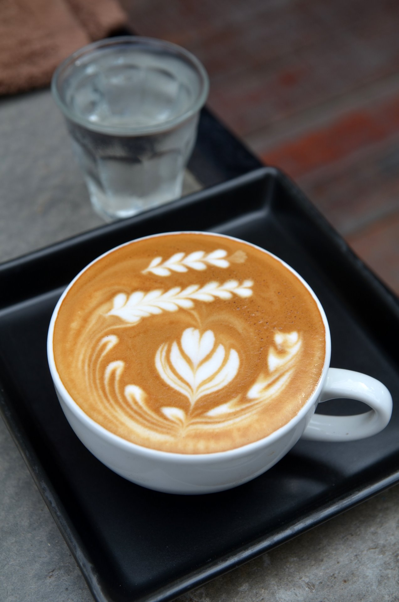 Latte art at Doppio Ristretto in Chiang Mai. The artist won several championships in Australia and came in 6th at the world championship in 2011. The figure in the centre is a "tulip", above it are two series of "hearts", and the figure along the lower side of the cup is a combined "rosetta" and a series of "hearts".